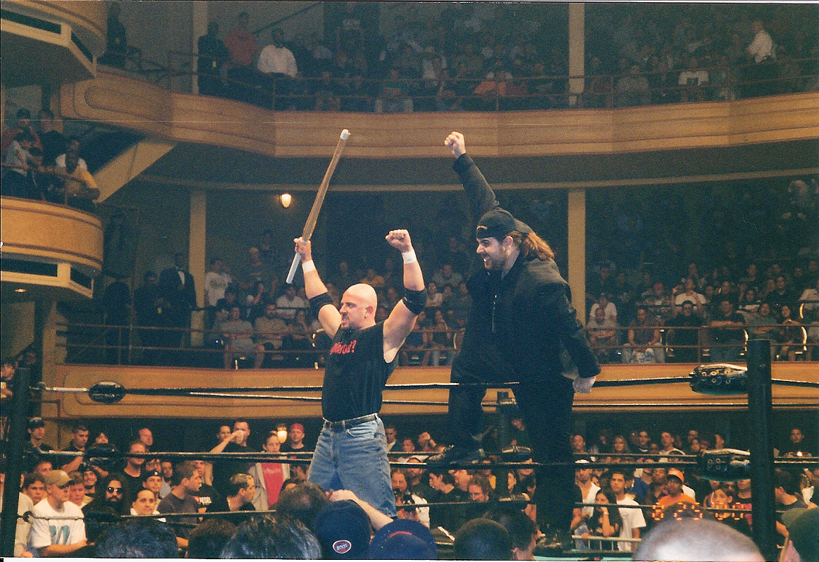 ECW Tag Team Championship Tournament/TNN Taping August 25-26, 2000